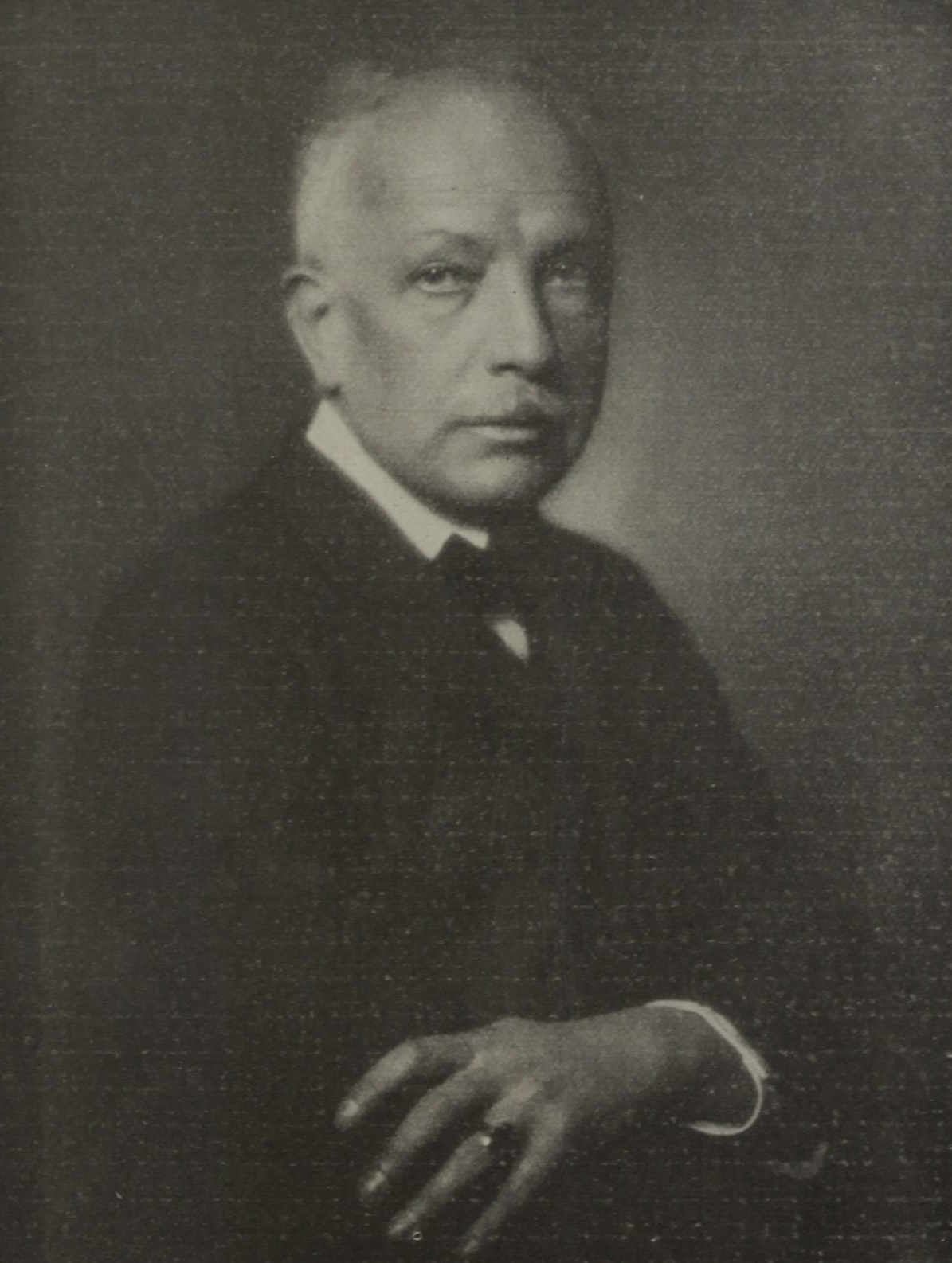 Richard Strauss (1864–1949), German composer.